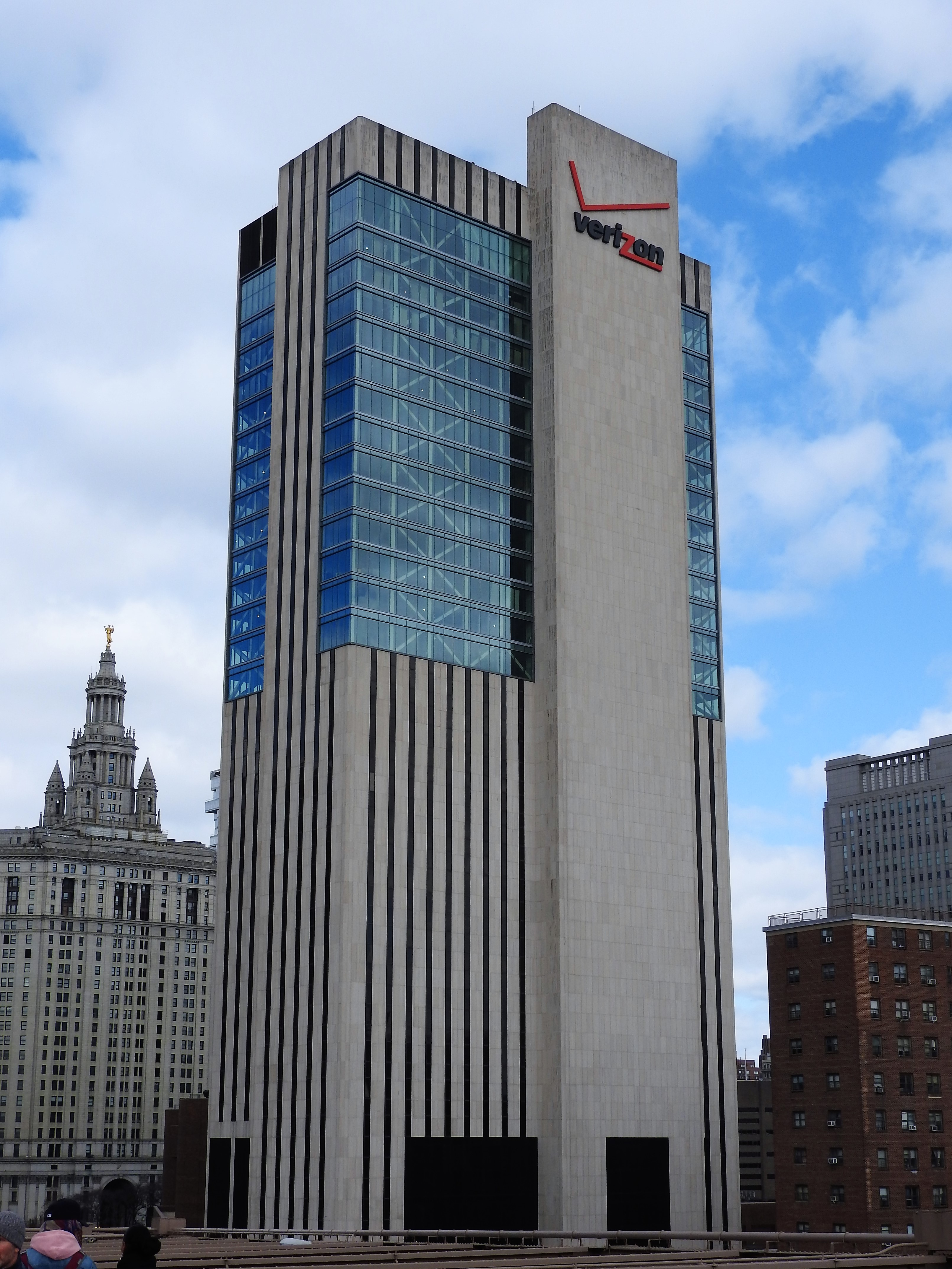 Looking northwest at Verizon building on a mostly cloudy late morning. 375 Pearl Street in 2018, after its 2016 renovation.